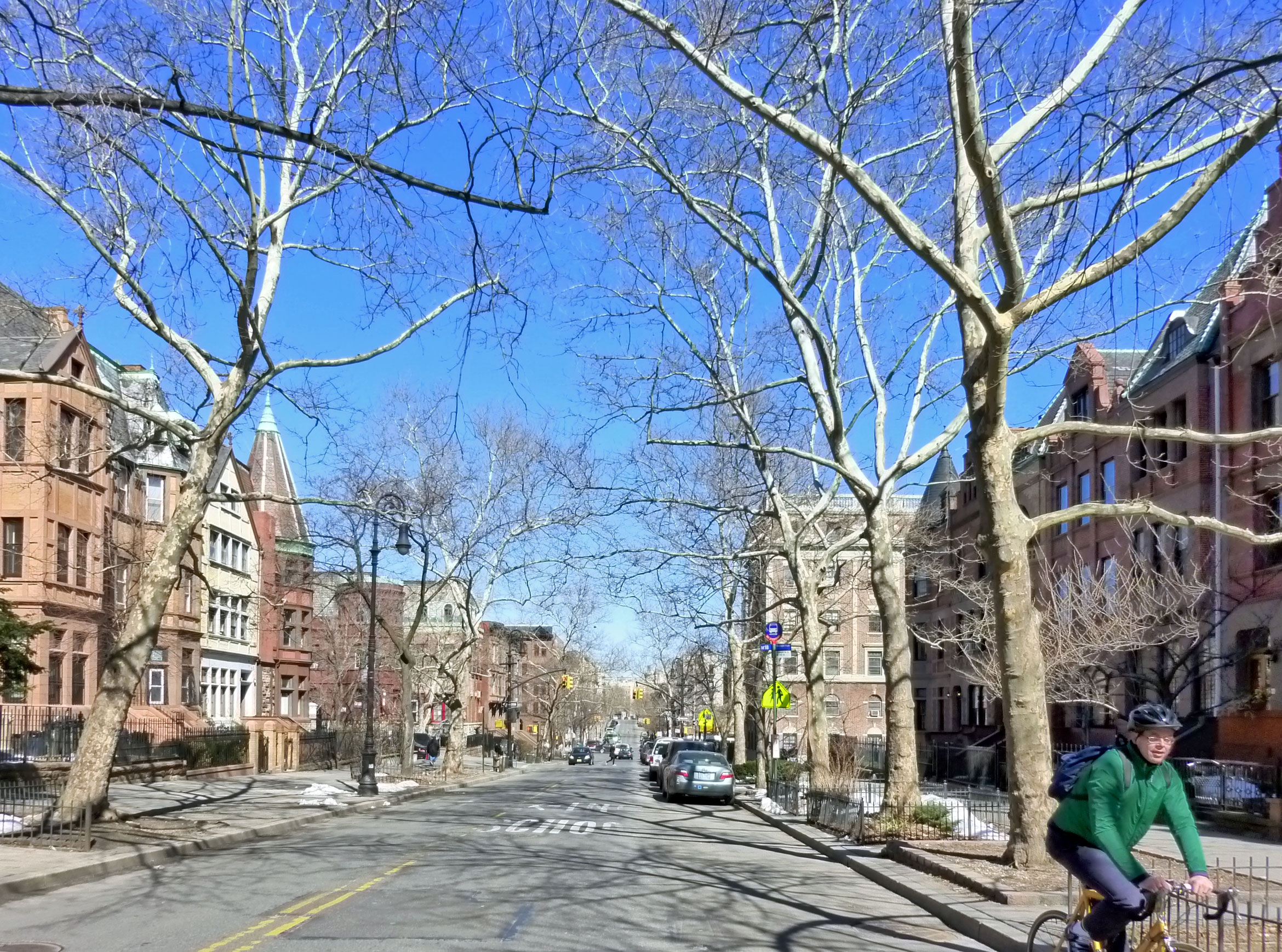 Hamilton Heights streetscape